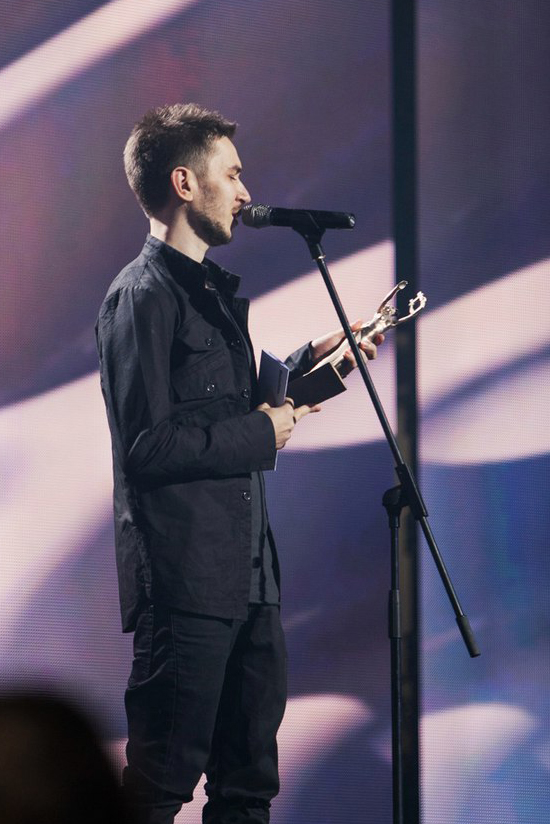 Cepasa wins Yuna 2017 Award "New Breath"